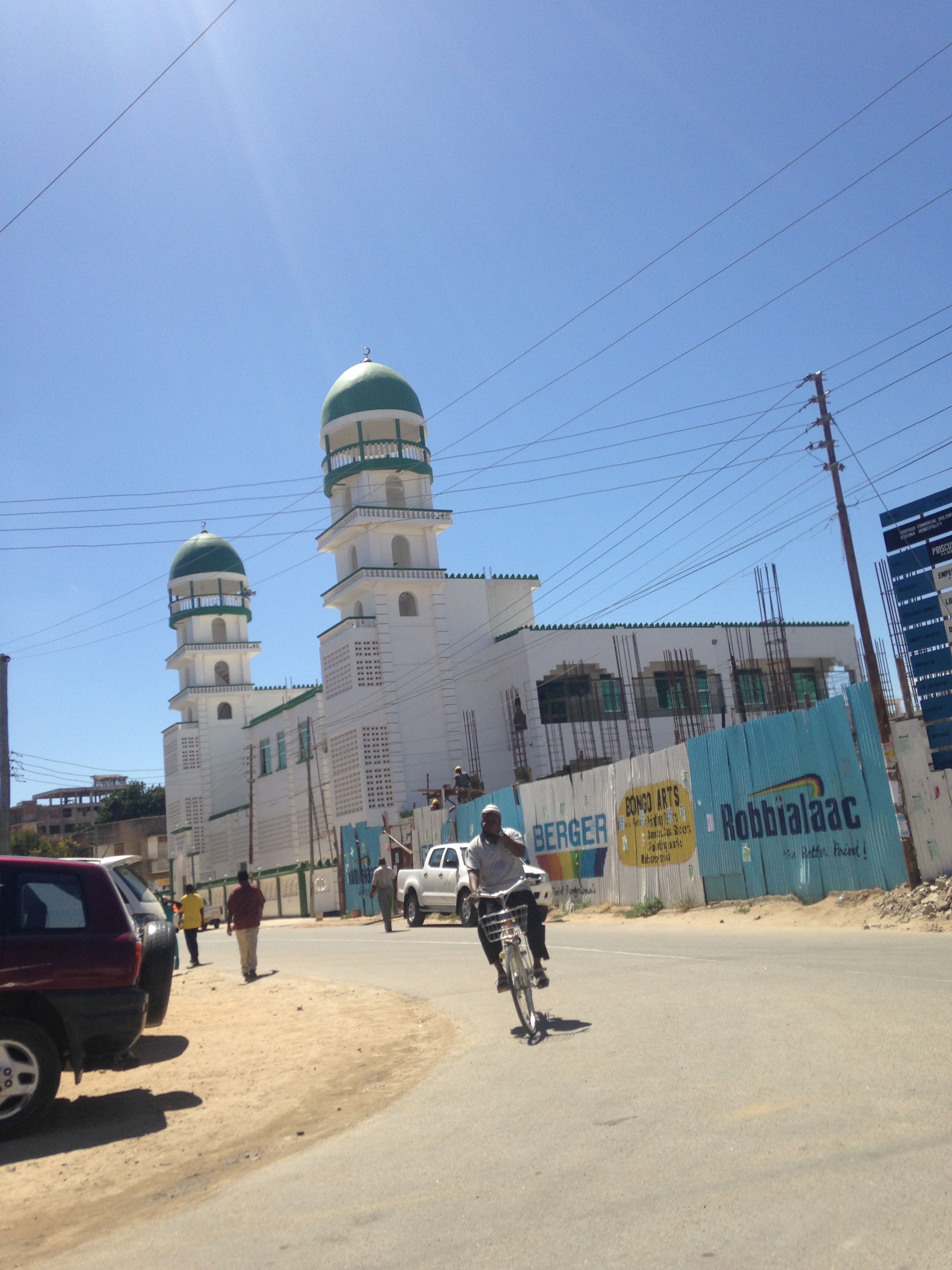 Dodoma Central Mosque